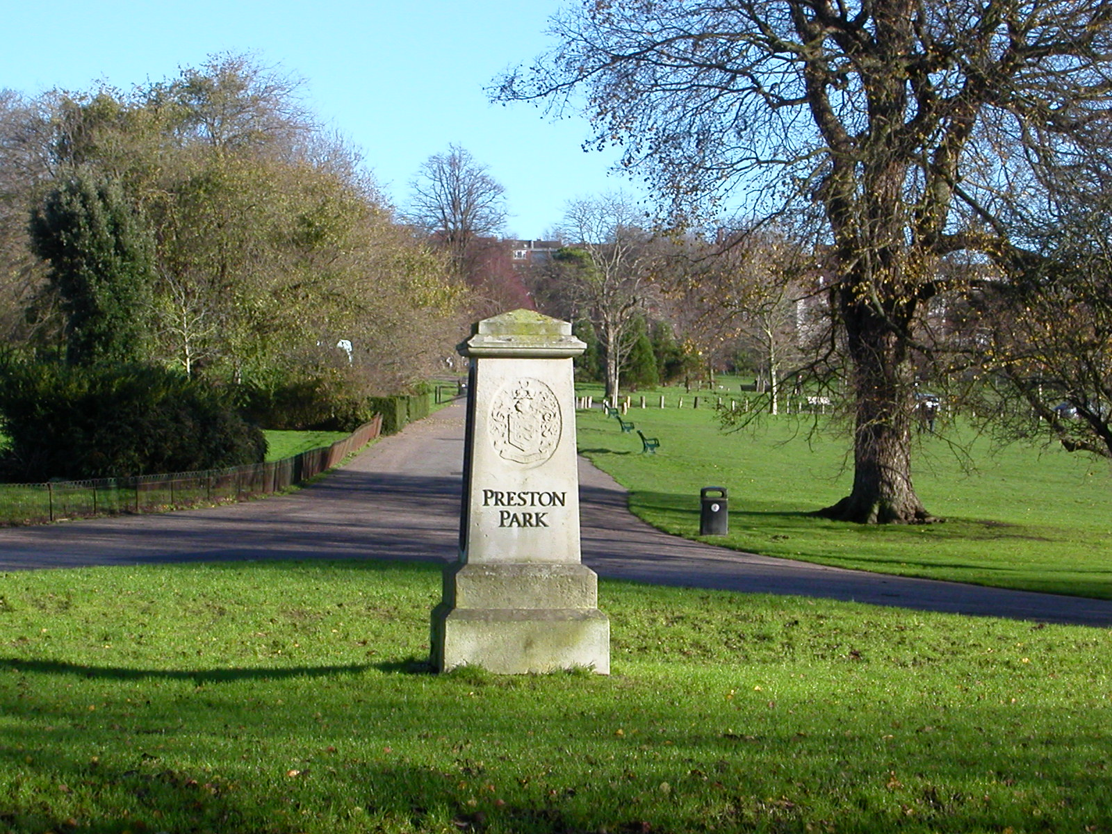 Stone pillar in the north-west corner of Preston Park. Photographed on 9th December 2006.